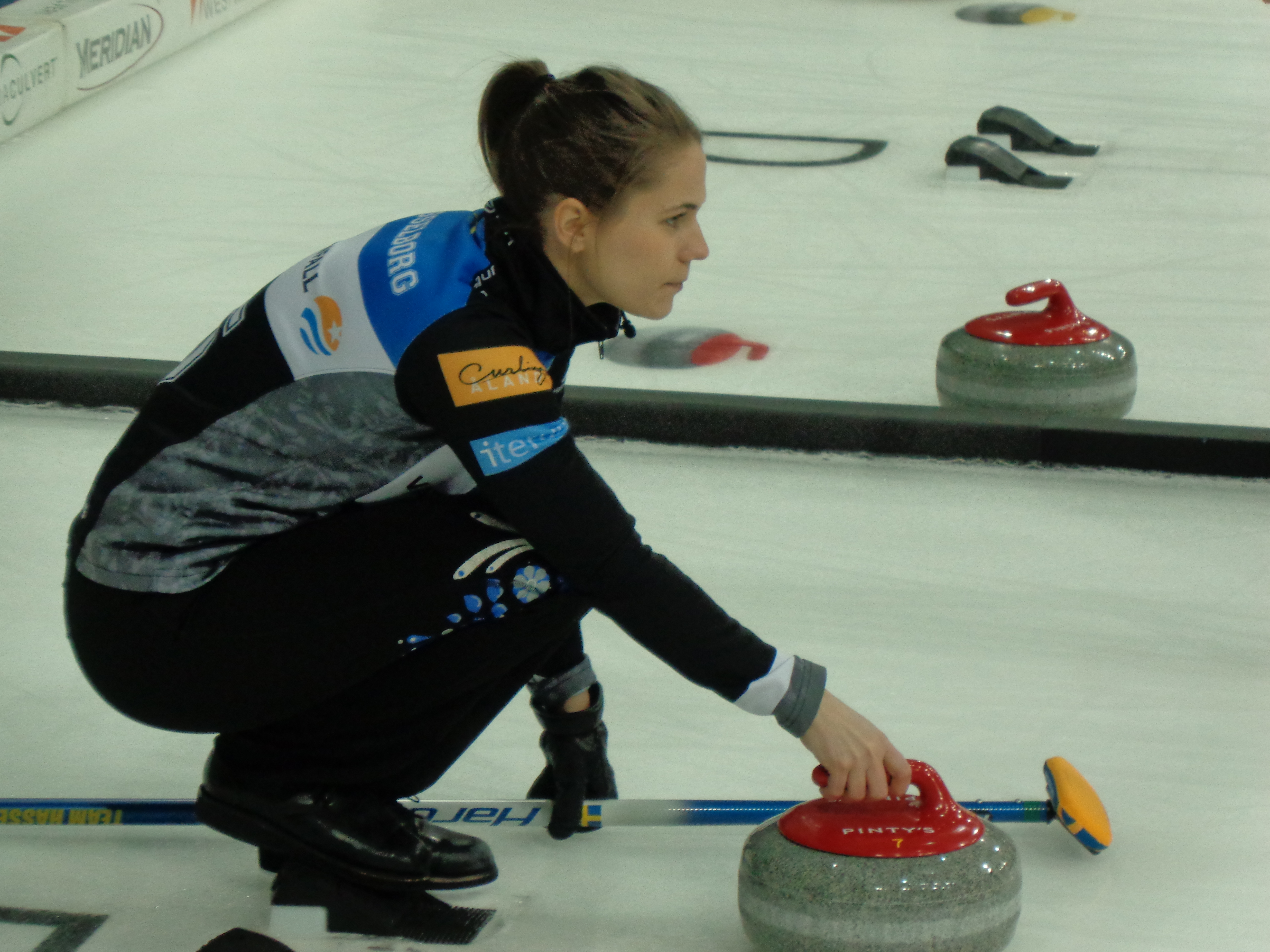 Anna Hasselborg at the Players Championship 2018